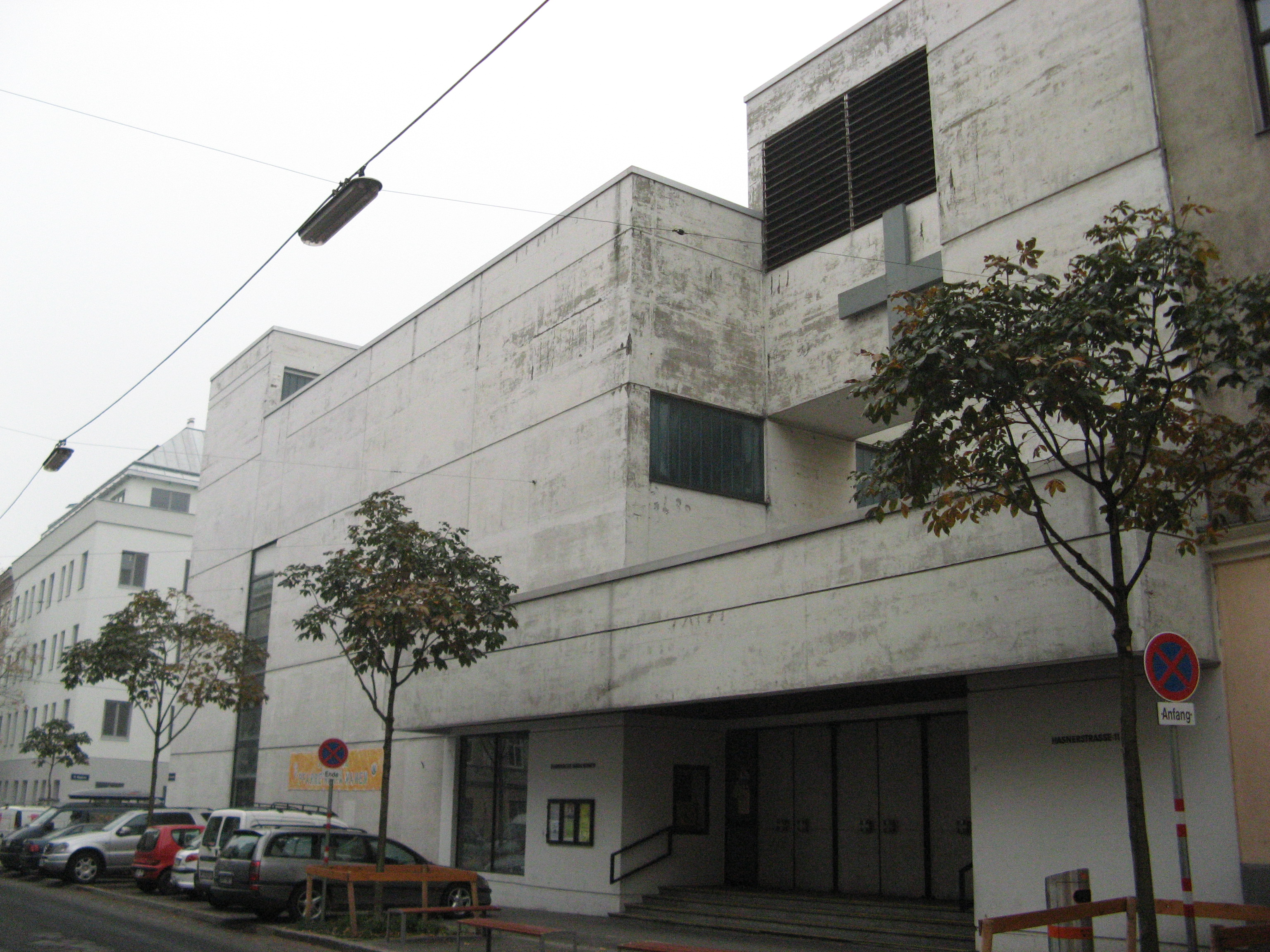 Church Maria Namen, 16th district of Vienna. Side Hasnerstraße with main entrance.